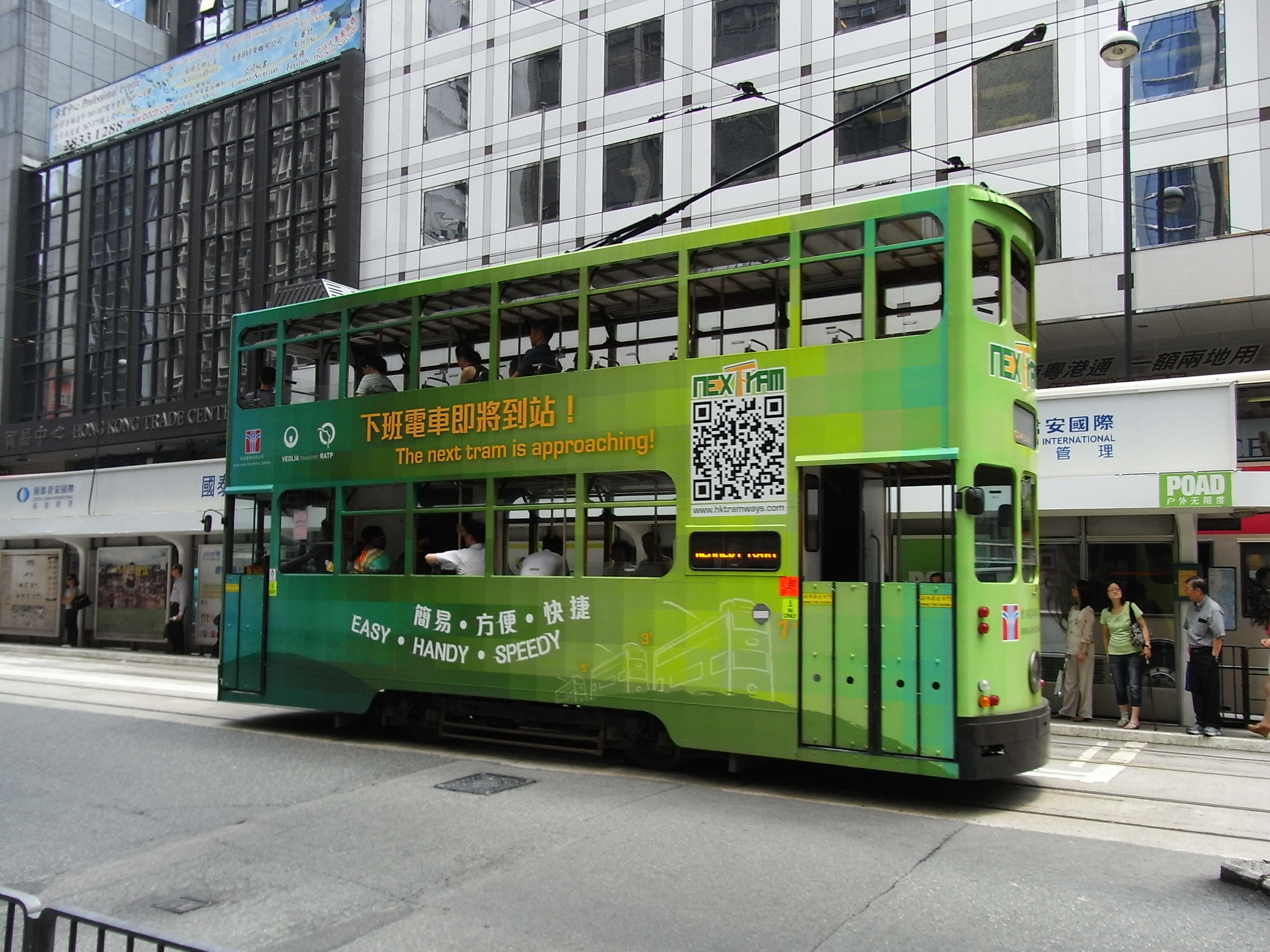 Des Voeux Road Central, Hong Kong